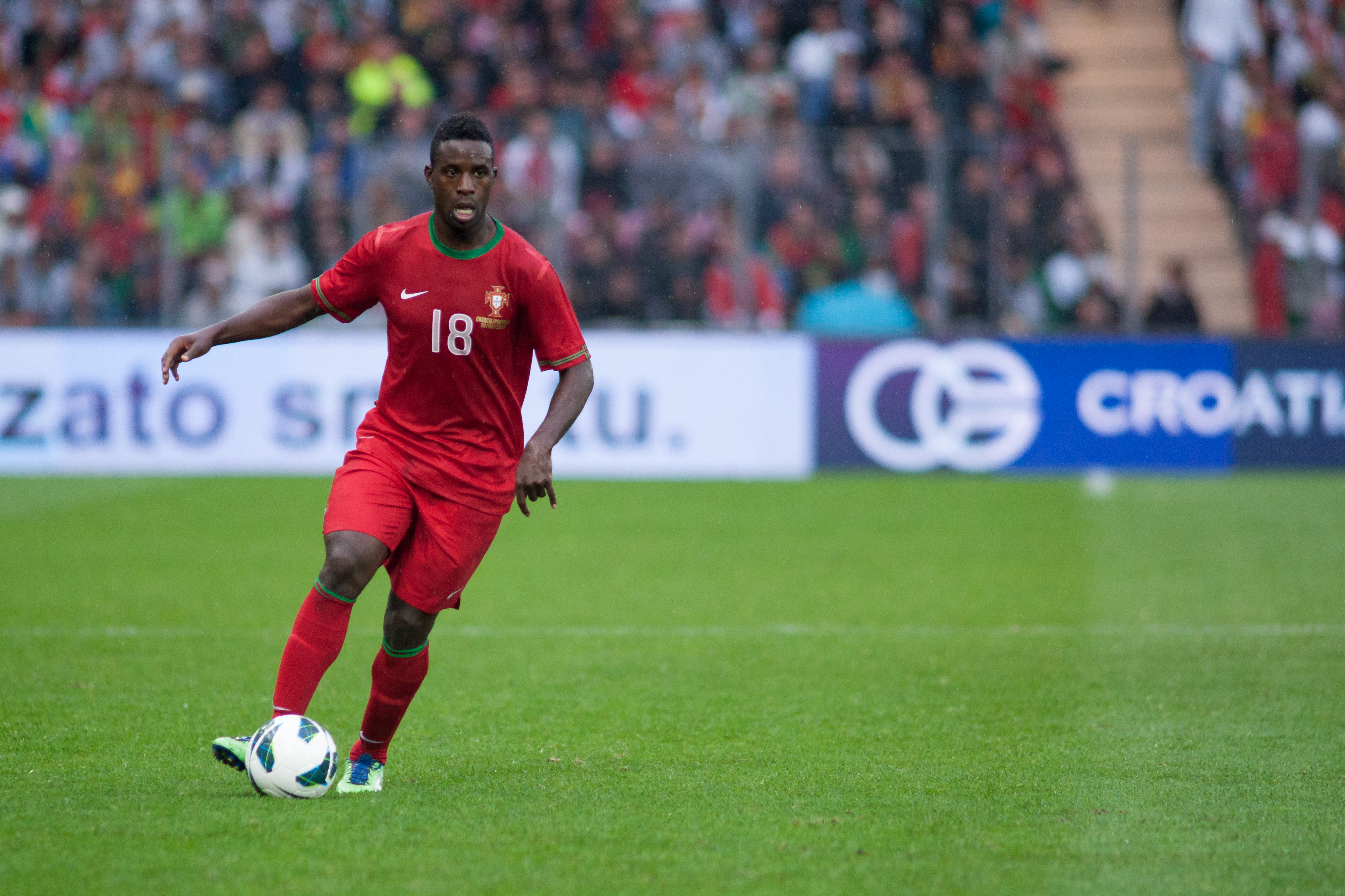 Croatia vs. Portugal, 10th June 2013